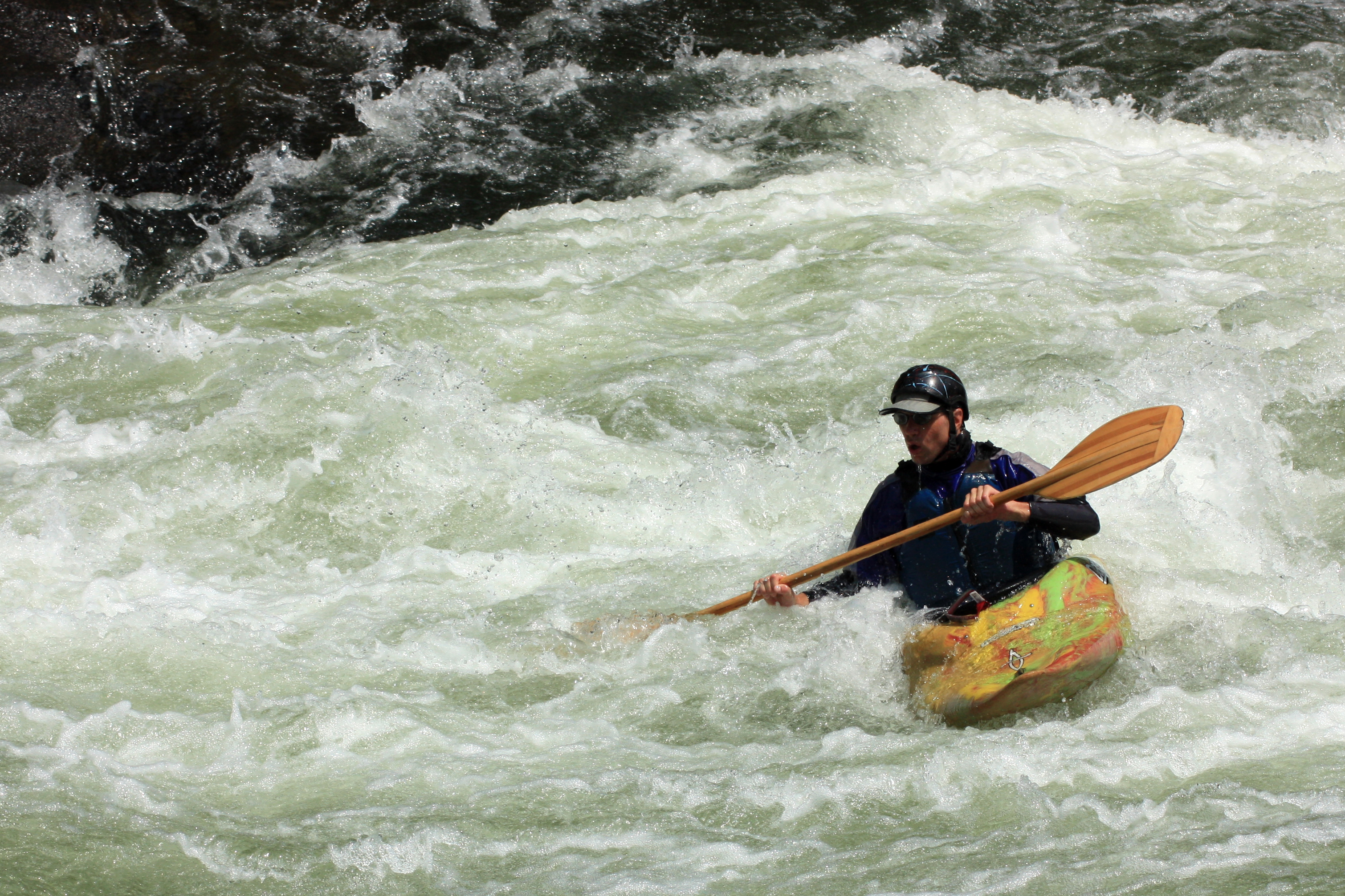 Kayaker performing a low brace (technique to right the kayak) with his wooden paddle on the Youghiogheny River in the Ohiopyle State Park, PA.